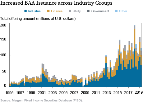 Issuance of BAA-rated corporate bonds (lowest tier of investment grade) in the United States, divided by industry groups, from 1995 to 2019